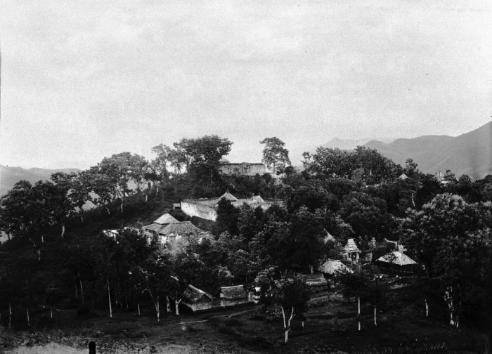 The royal graveyard of Imogiri, of the families of Central Javanese royalty